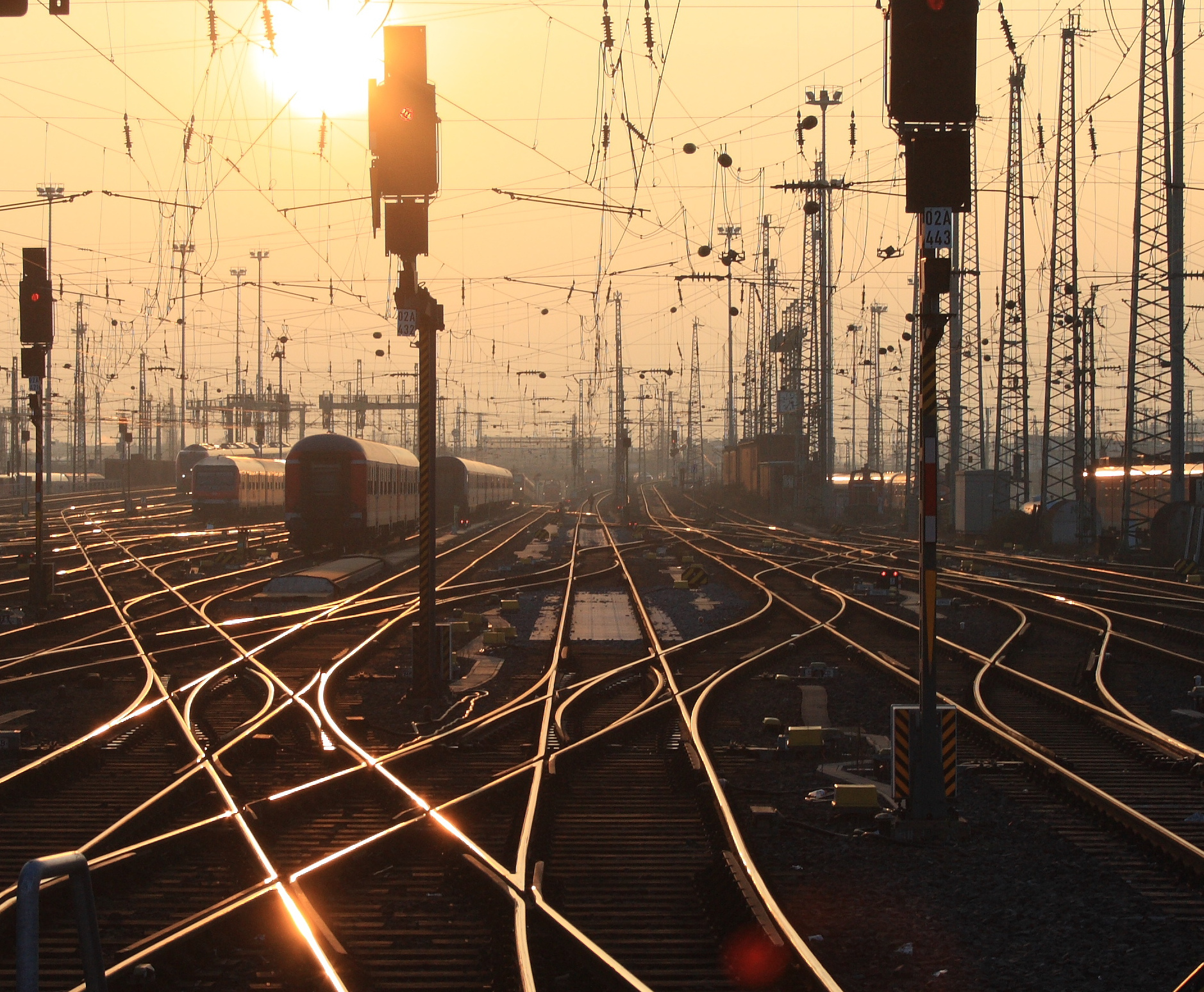 Railway tracks in the sunset. Taken at Frankfurt Central Station.